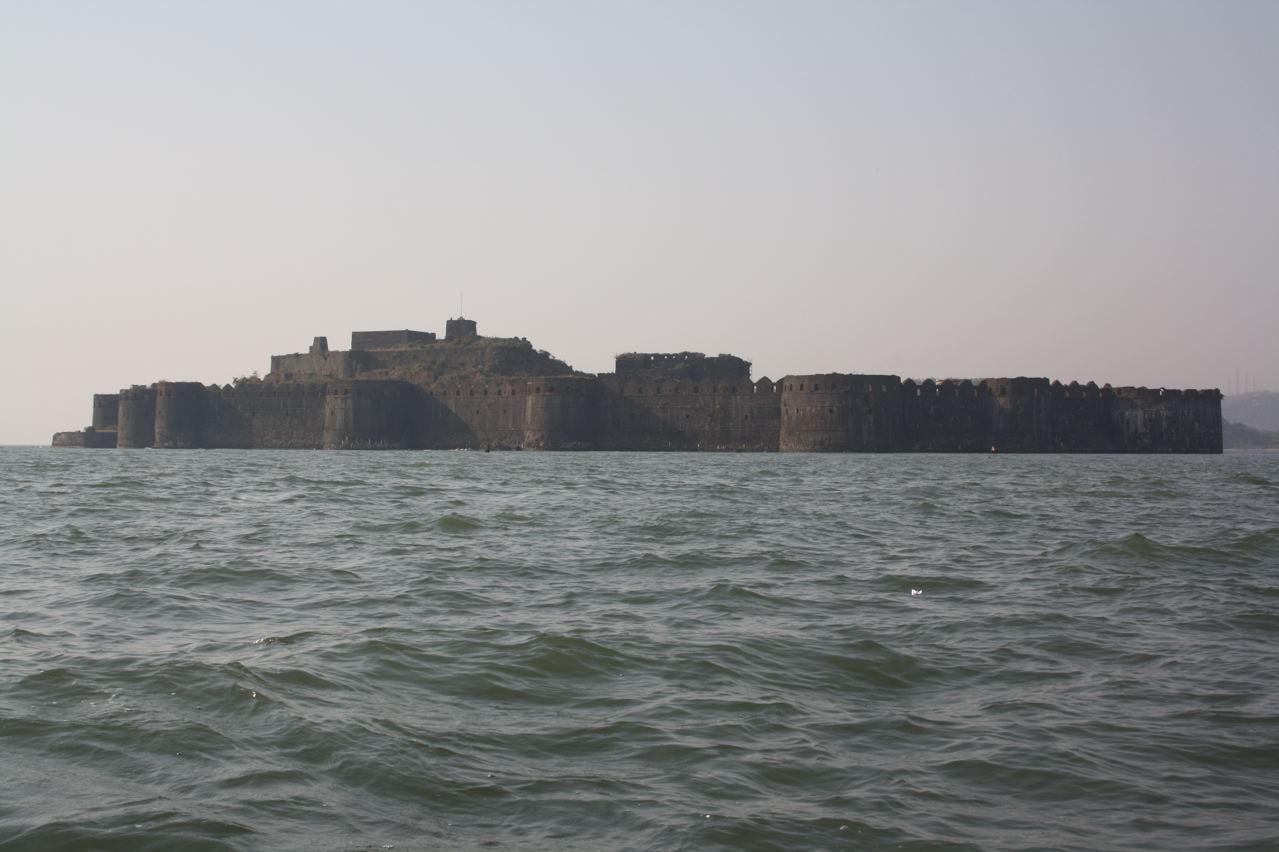 Janjira Fort